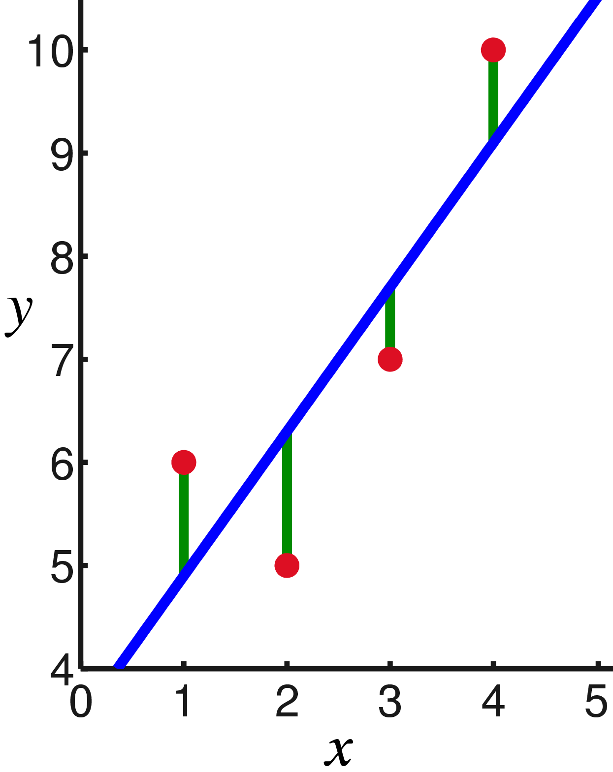 Illustration of linear least squares.